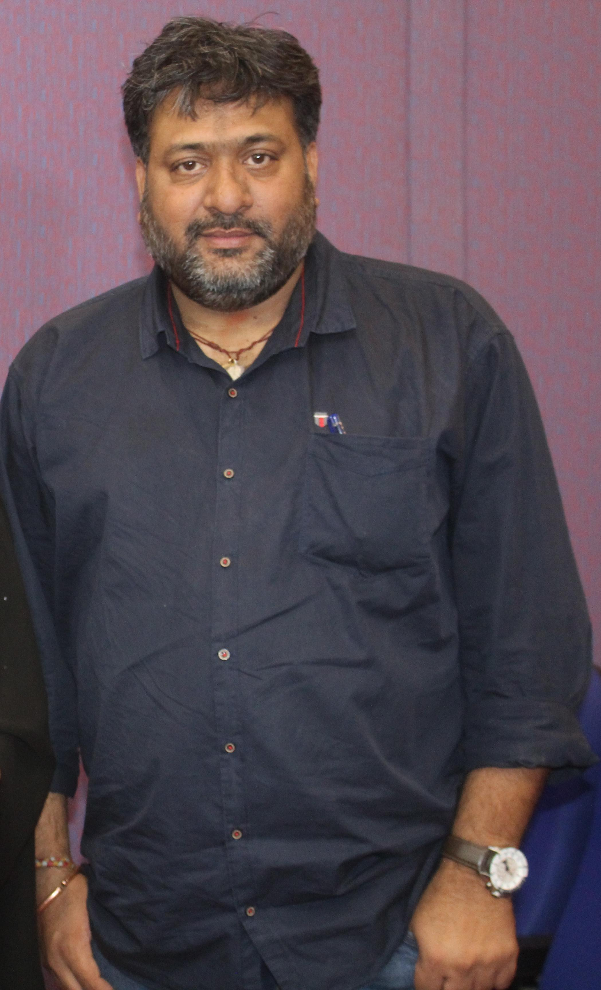 Sekhar Suri Telugu Film Director in Paidi Jaoraj Preview Theatre, Ravindra Bharathi